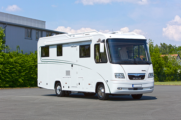 Model year 2017: VARIO Star 800 on MAN TGL 8.220